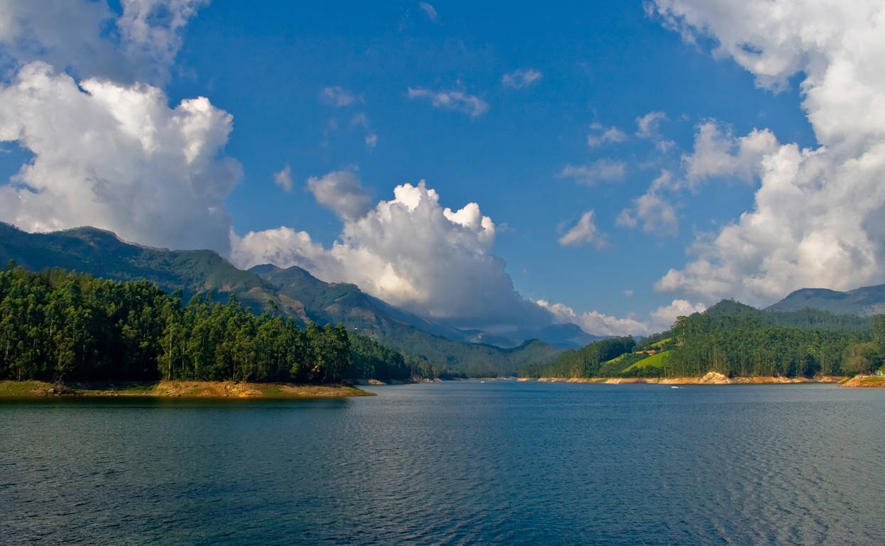 taken from munnar , kerala In both Malayalam and Tamil, the word ‘Munnar’ means three rivers, as it is merging place of three mountain streams. Munnar was once the summer capital of the British in southern India. Munnar was developed to cultivate tea plants by British although it was first discovered by Scottish planters.